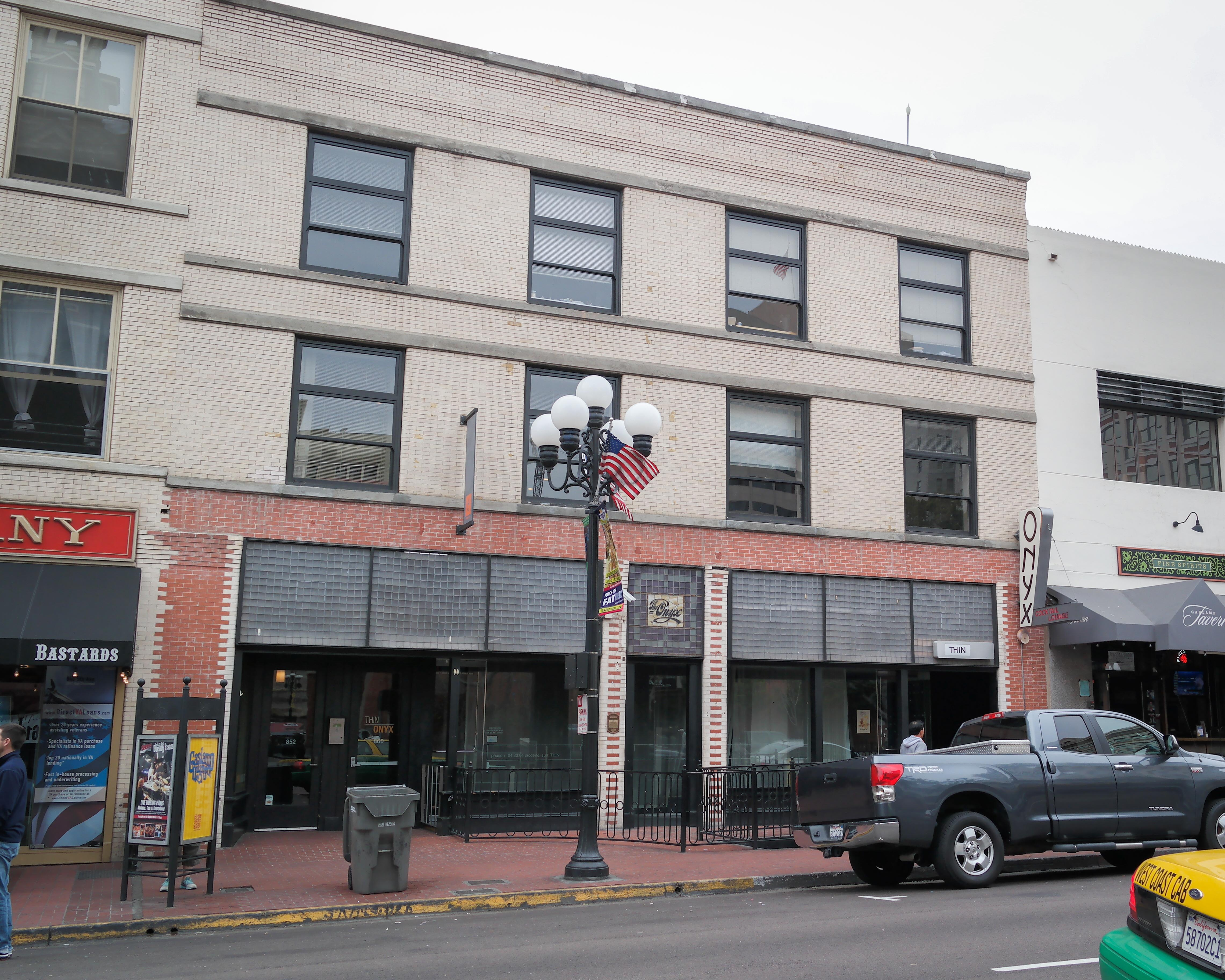 Historic Building Survey plaque: "27 The Onyx Hotel, 1910. This three-story pressed brick building still boasts the name of one of its earliest and longest tenants. 'The Onyx' still can be seen in the green and white tile inside one entrance, and on the stained glass above the central doorway. From 1911 until 1938, the Onyx Hotel operated on the upper floors; it later became the Rex, and then the Gates Hotel. In 1917, the Onyx was raided due to complaints that sailors were obtaining alcohol; more than a dozen sailors were caught. The lower floor was used for commercial purposes, and it housed San Diego Gas and Electric from 1917 to 1925."